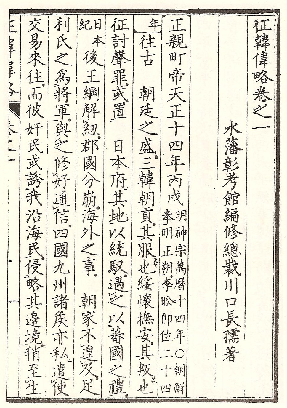 Sei Kan I Ryaku(Kanji:征韓偉略; Hiragana:せいかんいりゃく)